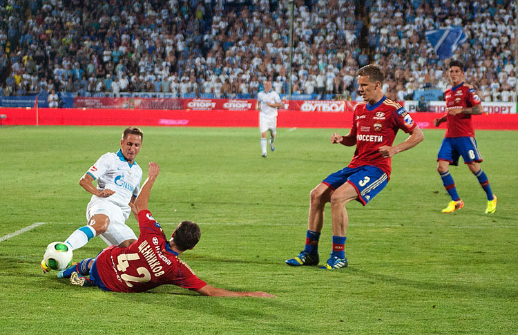 CSKA Moscow-Zenit Saint Petersburg, Russian Super Cup 2013